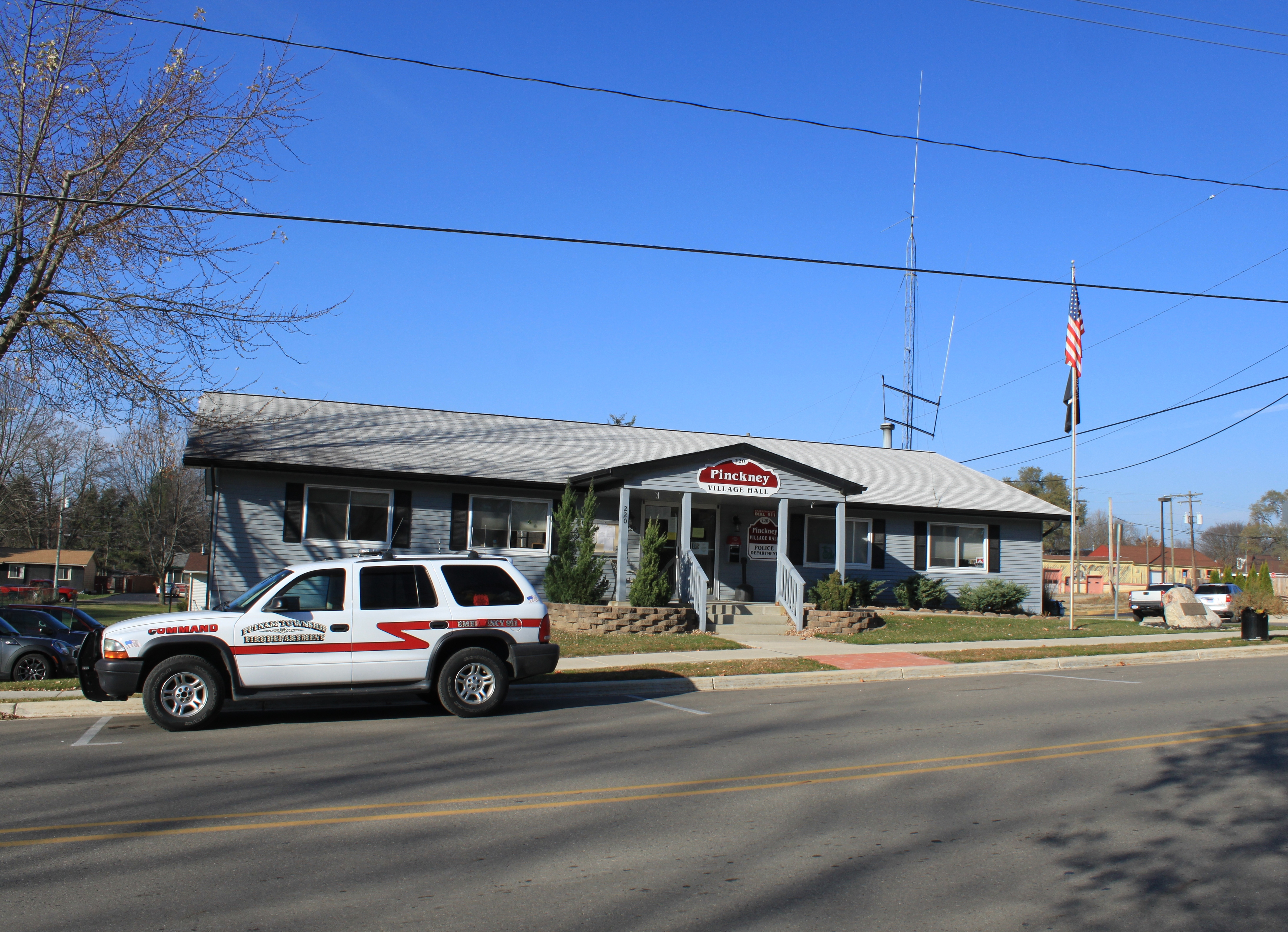 Pinckney Village Hall, 220 South Howell Street, Pinckney, Michigan